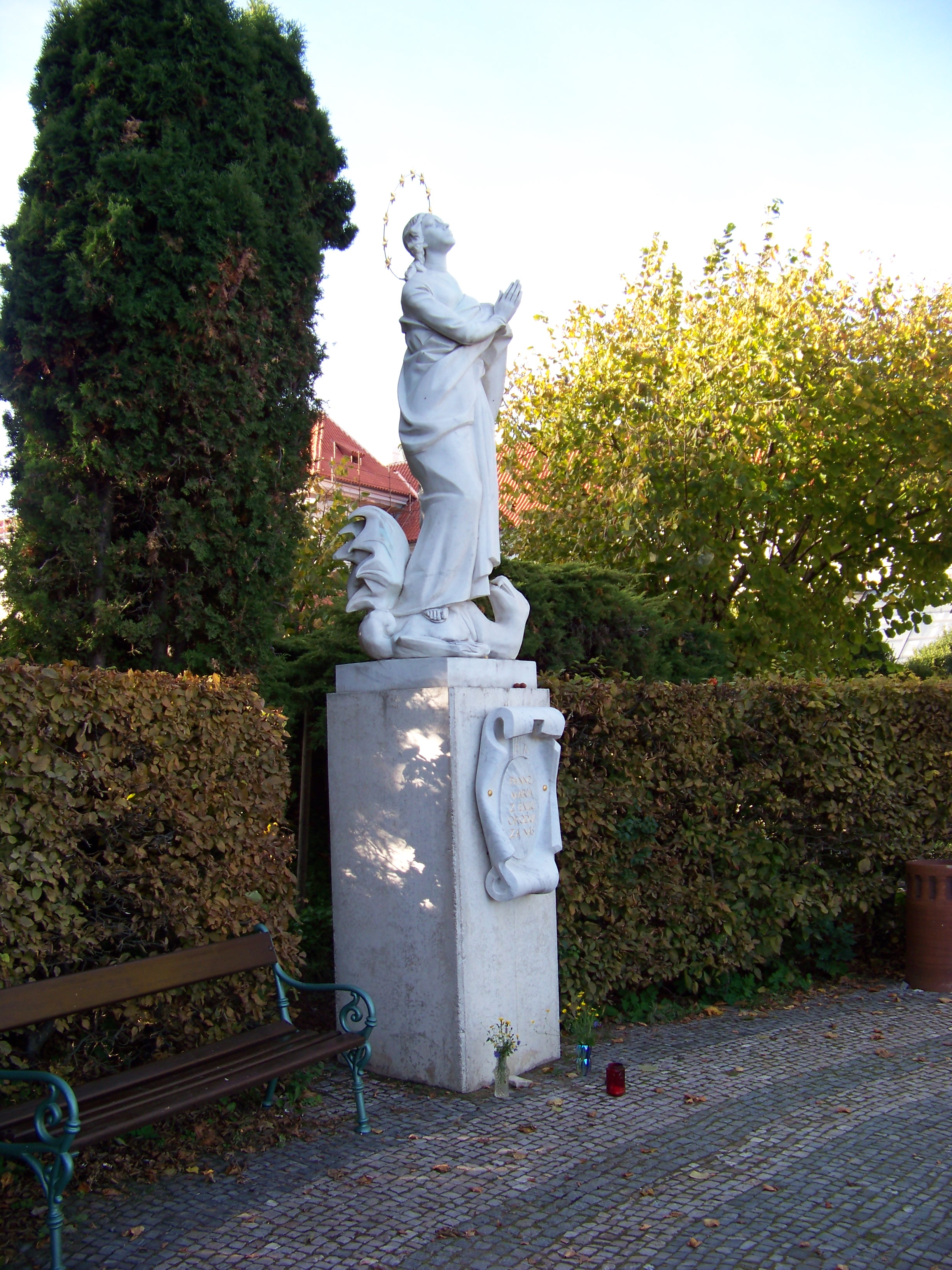 Prague-Hradčany, the Czech Republic. Petřín hill, Strahov Garden, statue of the Virgin Mary from Exile. - OpenStreetMap(Info)